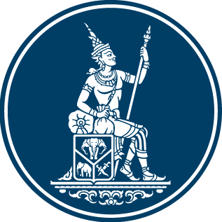 Seal of the Bank of Thailand, showing Phra Siam Thewathirat sitting on the shield of Siam. This version has been used since 2012